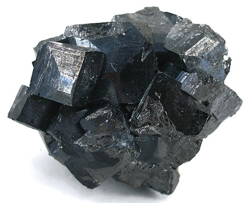 Magnetite Locality: ZCA Mine No. 4 (St Joe Mine; ZCA No. 4 mine), Balmat, Balmat-Edwards Zinc District, St Lawrence County, New York, USA (Locality at ) Size: small cabinet, 6.2 x 5.0 x 3.2 cm Magnetite Magnetite from this mine in upstate NY really stunned people when it first started trickling out, in the 1980s, and I have not heard of any good, fresh finds since the mid-1990s. Apparently these come from a deep, relatively inaccessible level for collectors. This specimen has crystals to 2 cm, and overall very little damage, mostly peripheral. These magnetites to me are best of species - I know some will disagree, choosing instead the sharp Swiss octohedra. But, for me, i like the metallic, jet black, intricate cubes of the NY Magnetites better - and the specimens are larger and more pretty, overall, too. This is a major classic but more than that something really different for a common species normally relegated to the drawers and not to display in a showcase. ex. Ken Hollman Collection